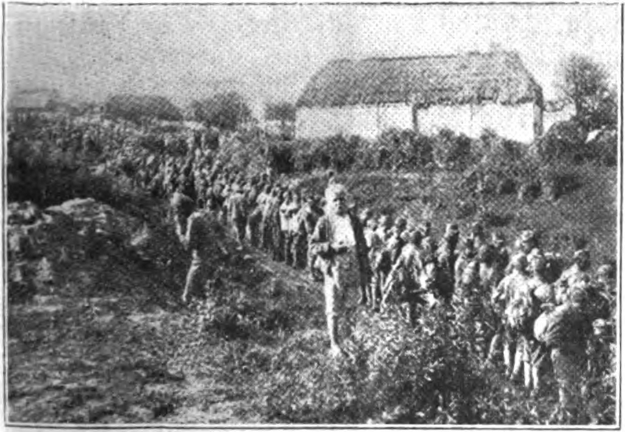 Czechoslovaks at Zborov in The Bohemian Review, volume 2, no. 3: counting Austrian prisoners